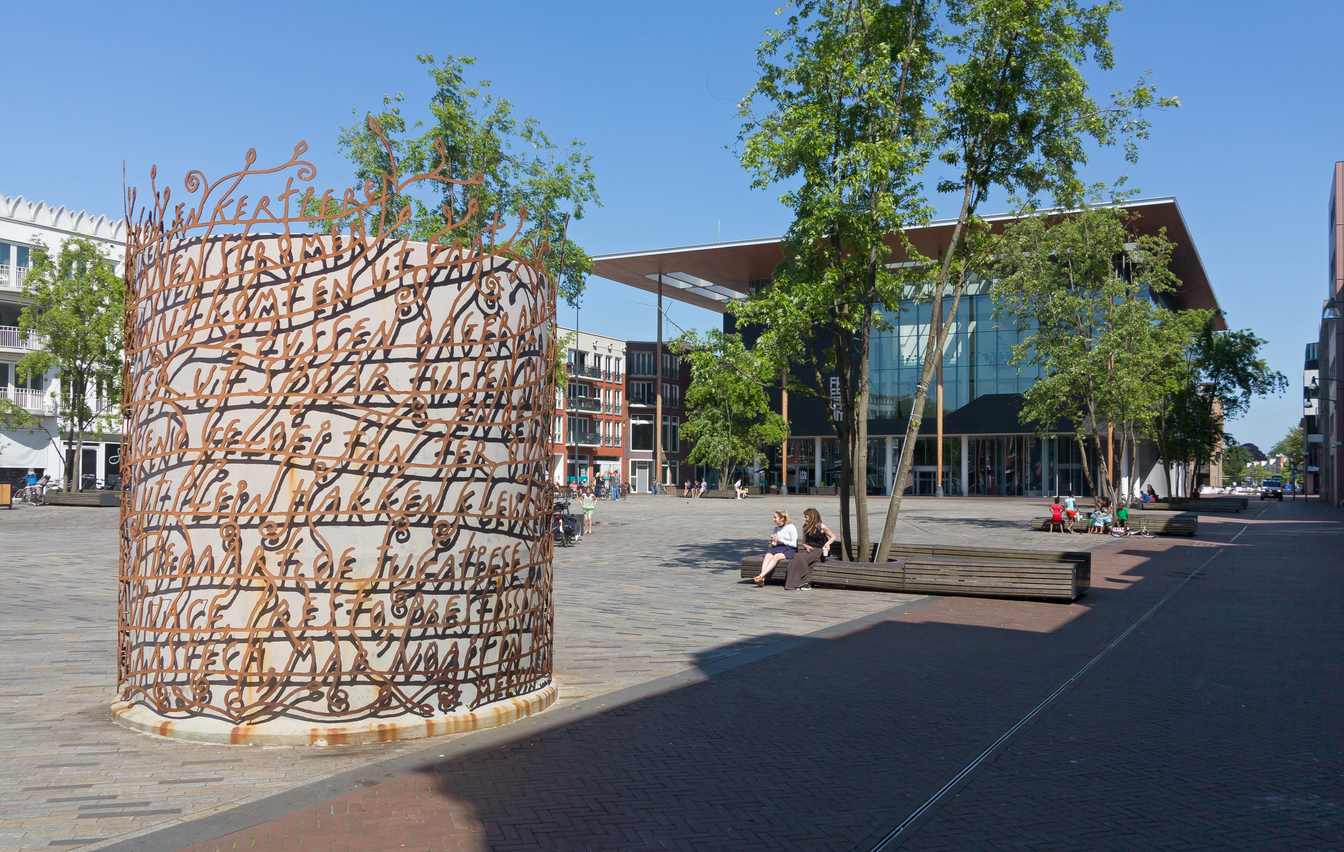 Leeuwarden, sculpture (De Onwemelber) and het Fries Museum